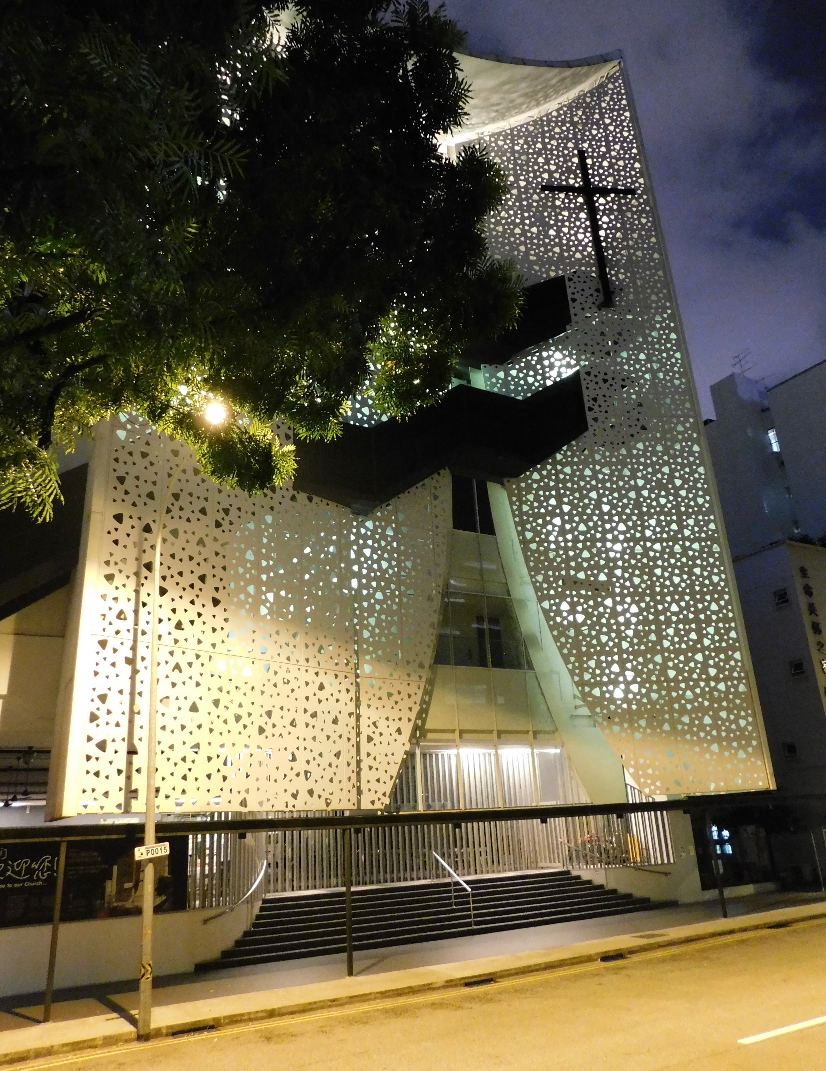 Singapore Life Church is a reformed church located on Prinsep Street, Singapore. Founded in 1883, it is one of the oldest Presbyterian churches in the city-state.